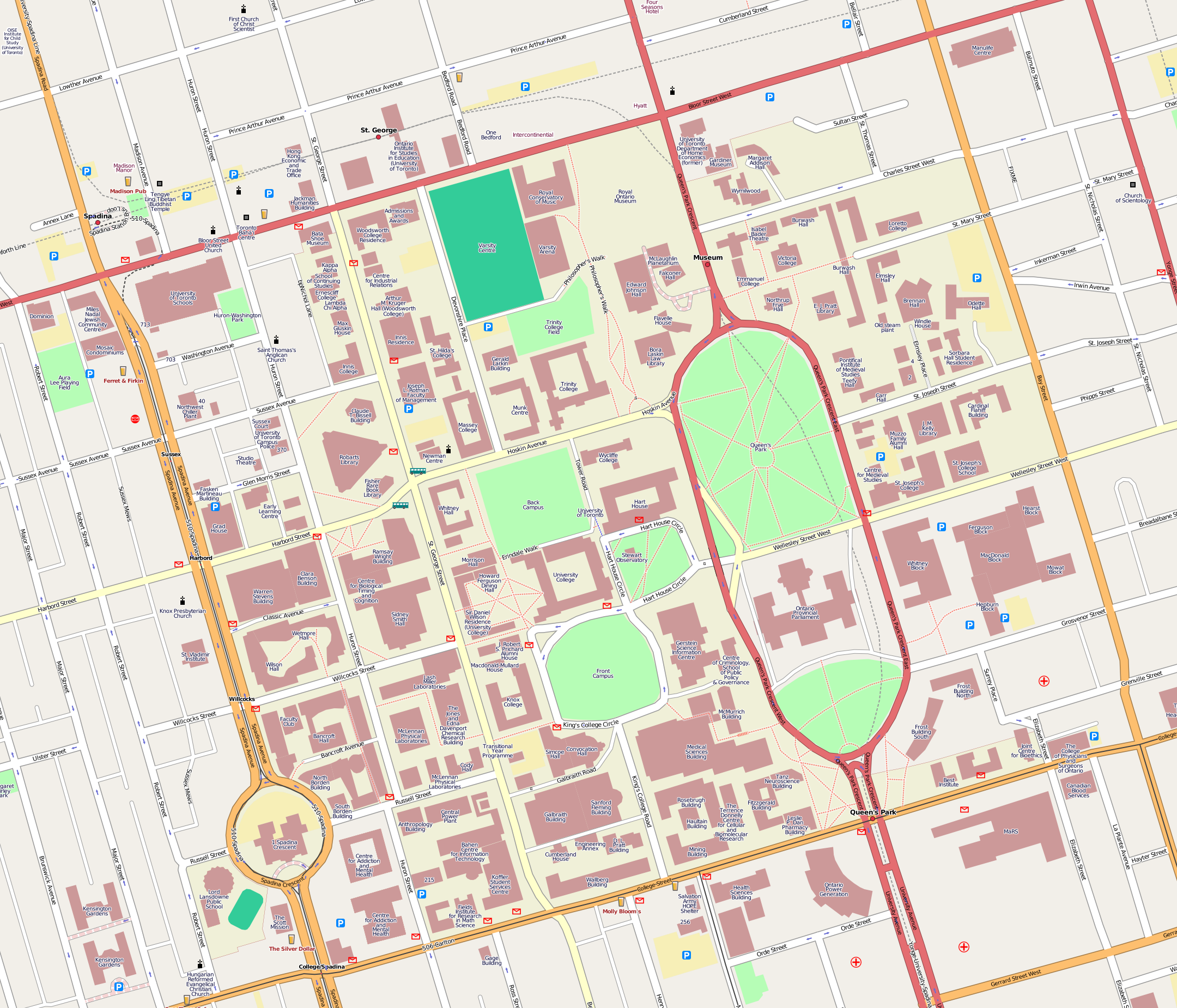 This map may be incomplete, and may contain errors. Don't rely solely on it for navigation.